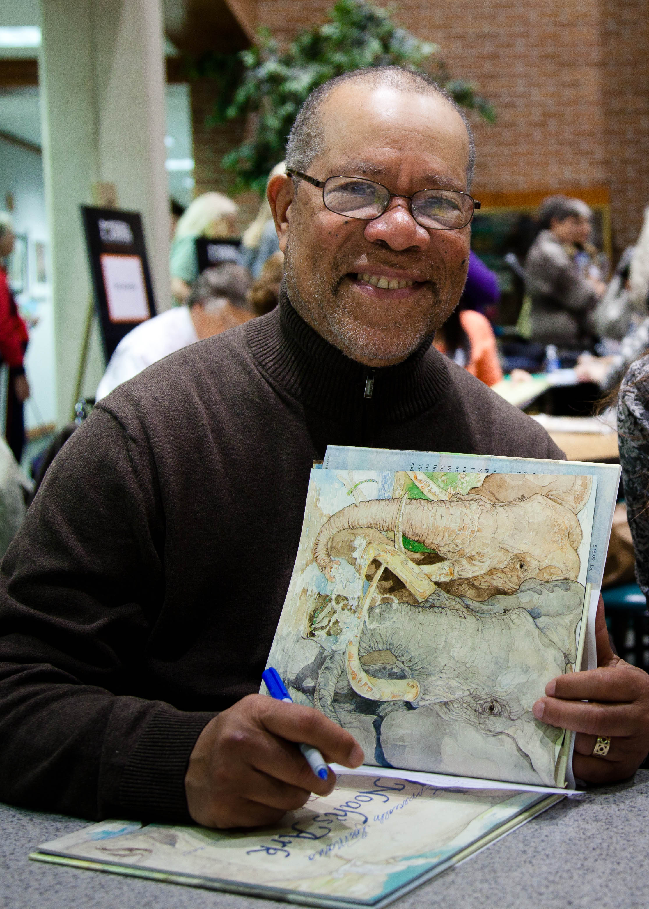 Jerry Pinkney signing one of his many Caldecott Honor winning books at the Mazza Museum at The University of Findlay.